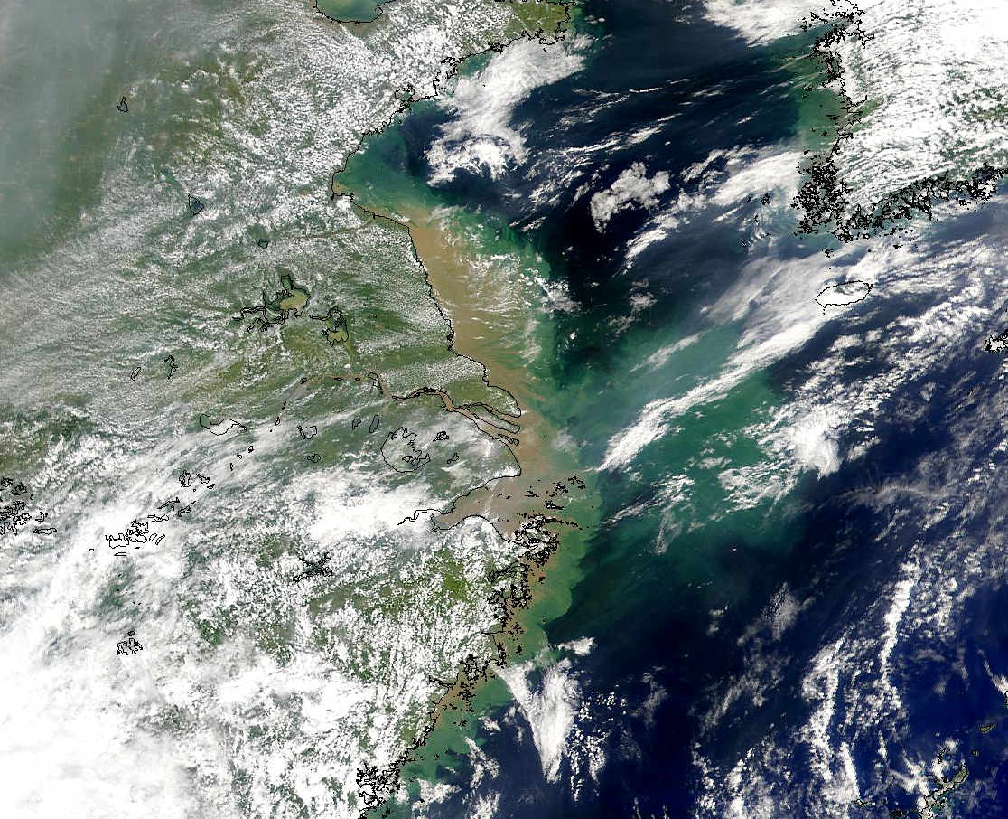 Sedimentation off the eastern coast of China caused by Typhoon Prapiroon in August 2000.